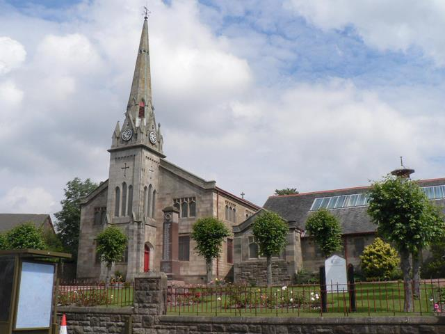 Larkhall: parish church of St. Machan Heavy traffic on the motorway led me to divert through Larkhall town centre. This was a view through the car window as I sat in a queue.